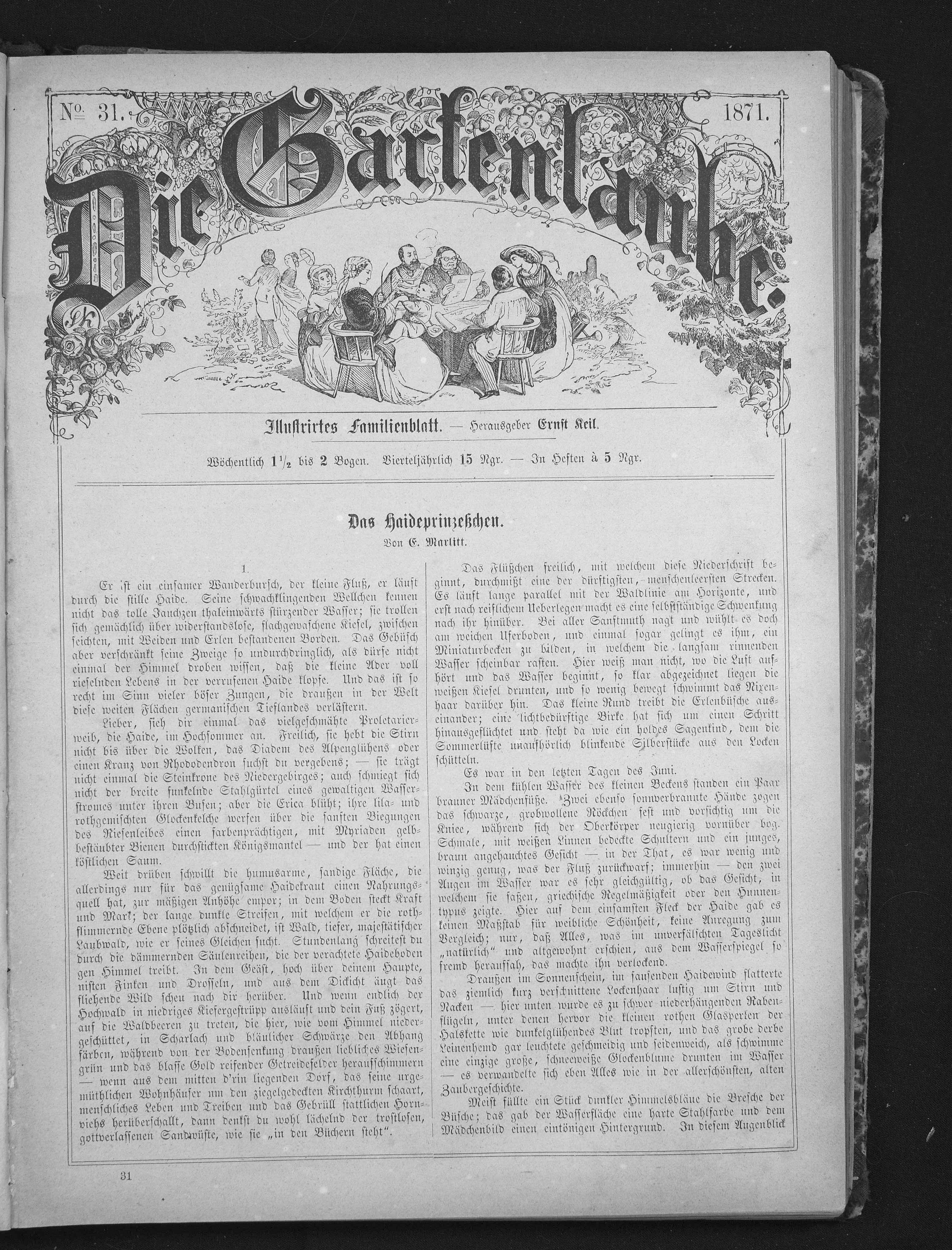 Page 513 from journal Die Gartenlaube for 1871.Extracted image (if any): File:Die Gartenlaube (1871) b 513.jpg - hi res, ~2.5 MB.